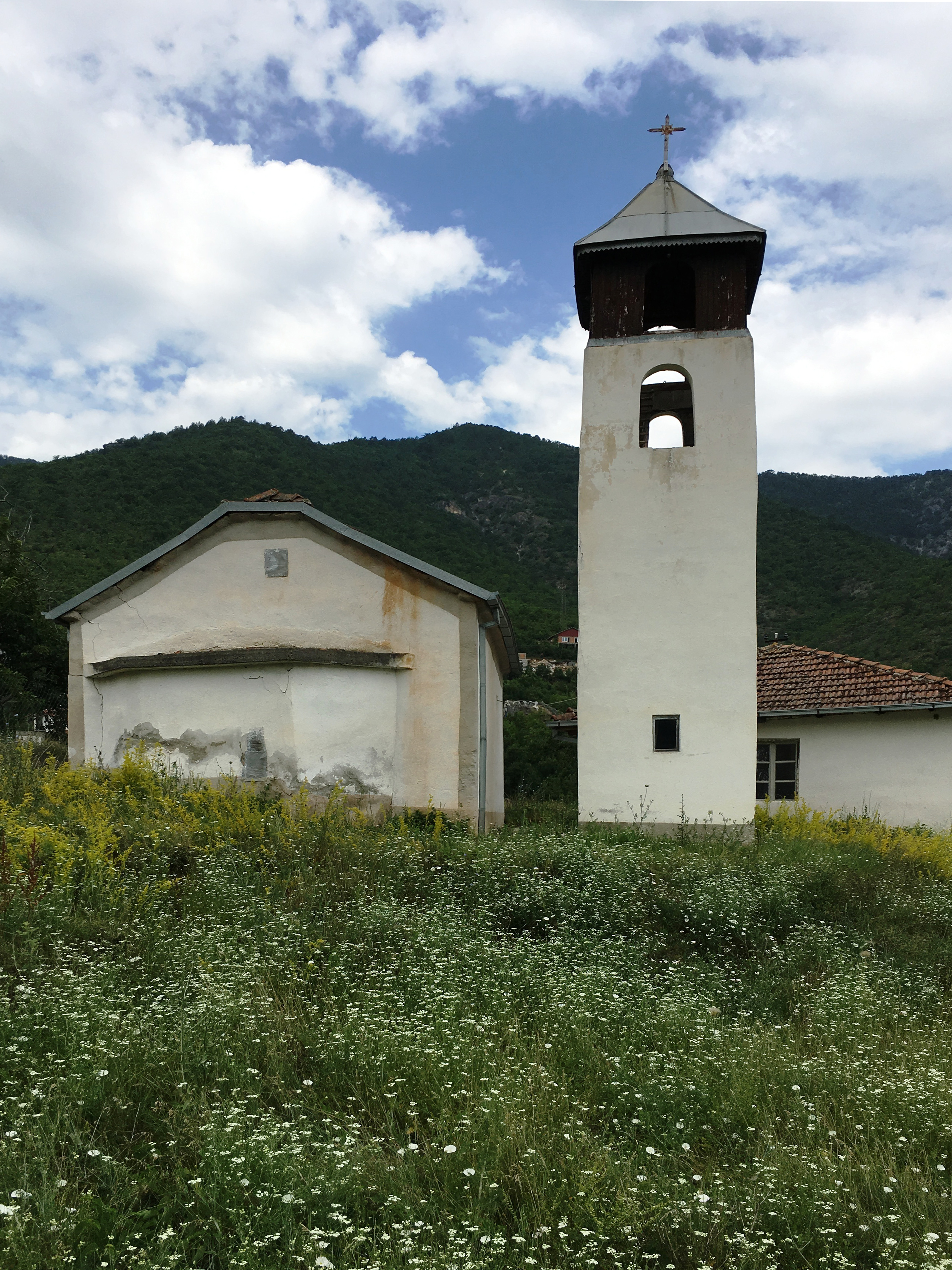 St. Michael the Archangel Church in the village of Blizansko